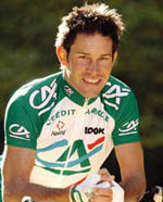 Julian Dean, Credit Agricole